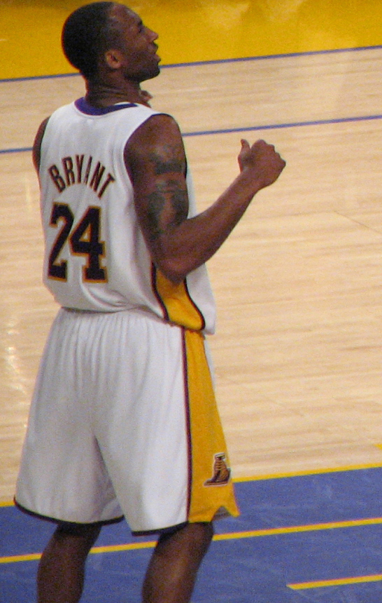 action shot